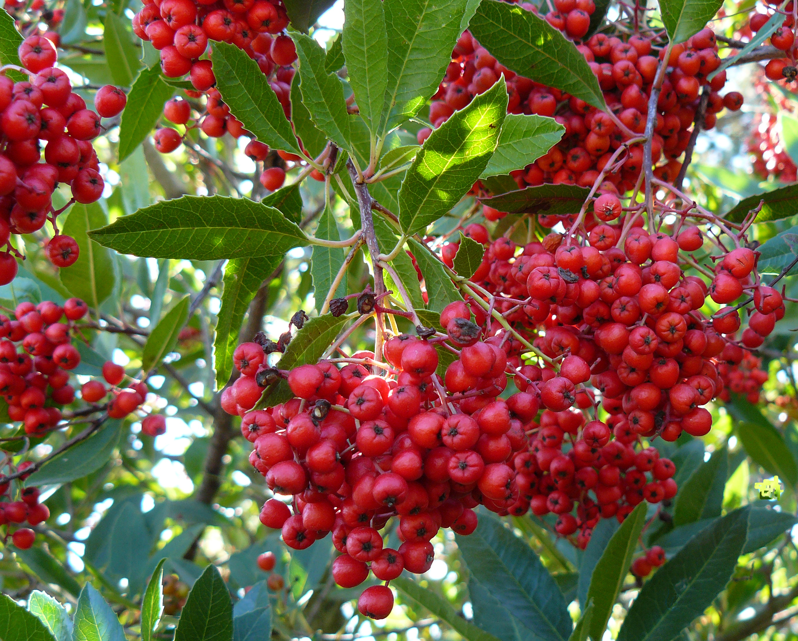 Heteromeles arbutifolia — Toyon, foliage and fruit. At Lake Los Carneros Park, Goleta, Santa Barbara County, California.